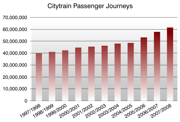 Graph showing QR Citytrain passenger journeys from the 1997/1998 through to 2007/2007 financial years